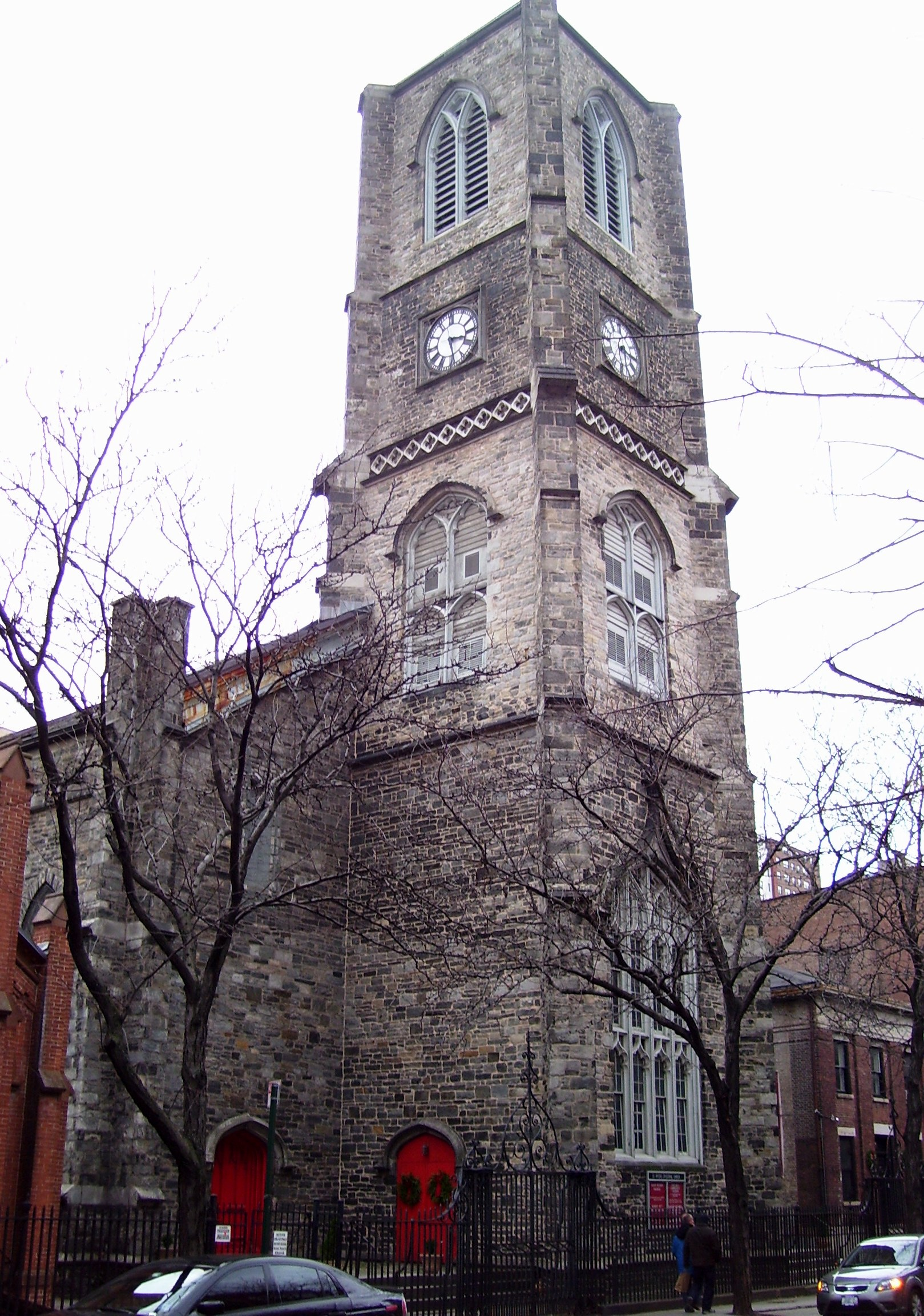 St. Peter's Episcopal Church, at 346 West 20th Street between 8th & 9th Avenues in the Chelsea neighborhood of Manhattan, New York City, was founded in 1831 on land leased from Clement Clarke Moore, who later deeded it to the congregation. (He was also a warden, vestryman and organist for the church.) It was an outgrowth of the nearby General Theological Seminary, also built on land Moore donated. The Gothic Revival building itself was built in 1836-1839 by James W. Smith after designs by Moore. The rectory next door (which was the original chapel for the congregation) was built in 1832. The East Hall (built 1854, facade added 1871) is now used by the Atlantic Theatre Company Both buuldings are in the Chelsea Historic District. (Sources: AIA Guide to NYC, (4th ed.), Guide to NYC Landmarks (4th ed.), Church website)